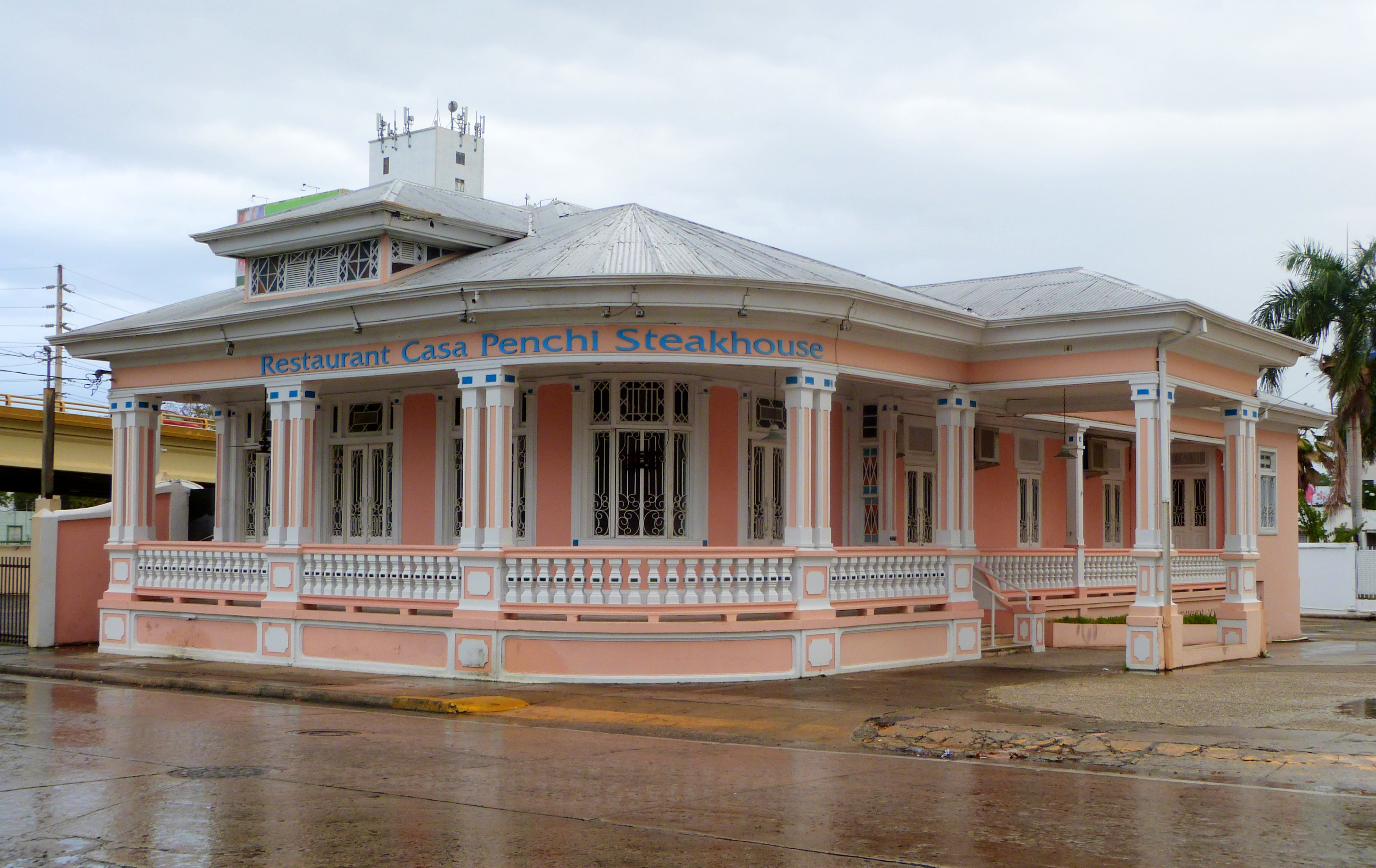 The historic Duran Esmoris Residence (built 1931), located on Méndez Vigo Street in Mayagüez, Puerto Rico, is listed on the U.S. National Register of Historic Places| .